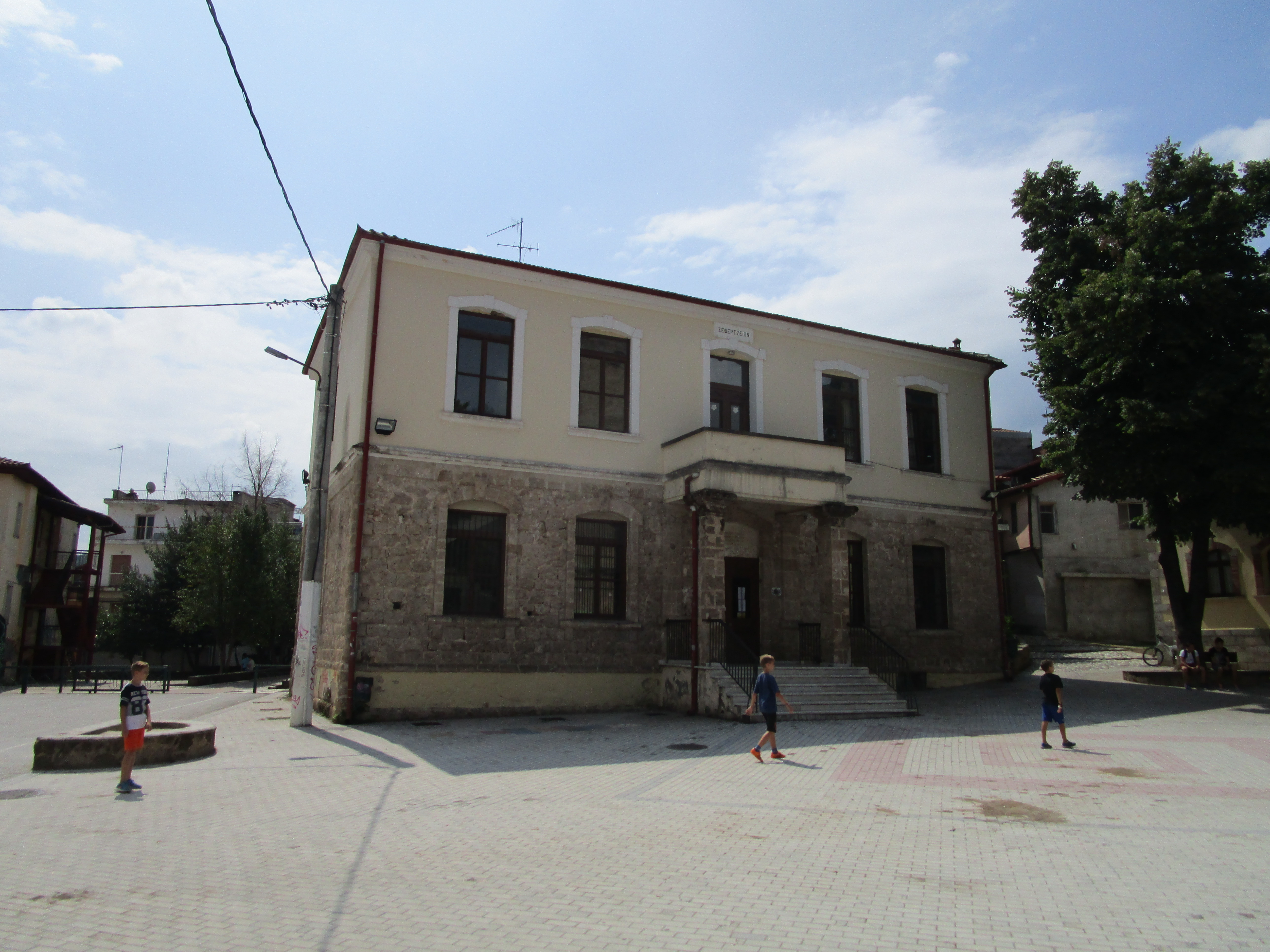 Sefertzeio School2, Negush